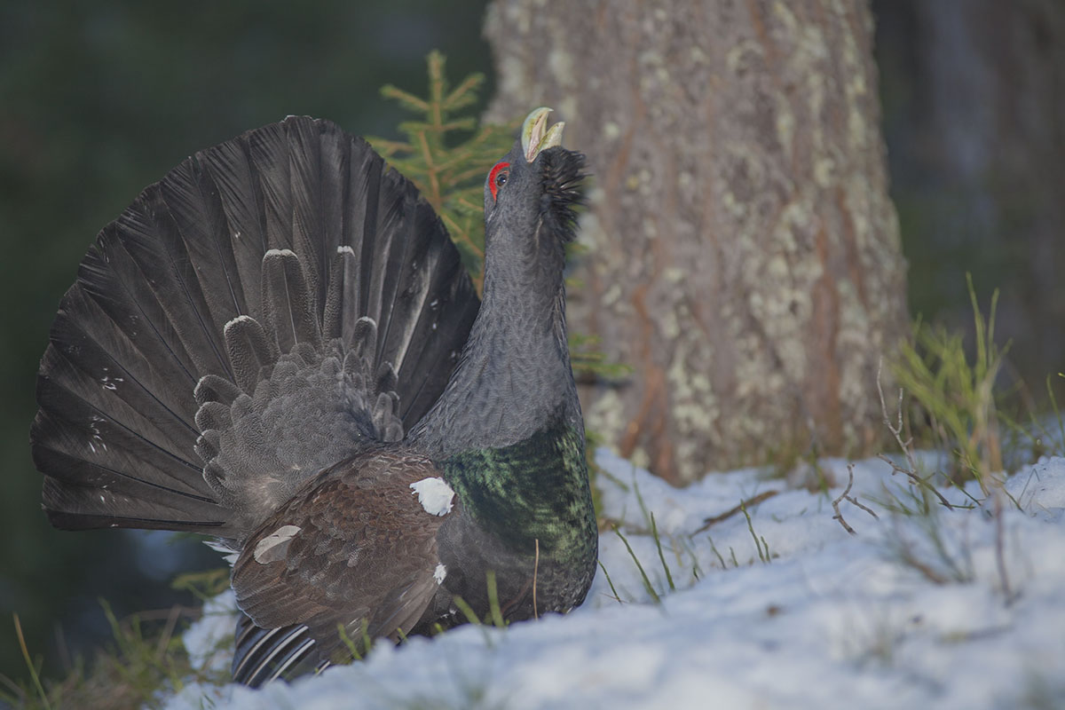 Male Capercaillie (Tetrao urogallus) in the National Park and Natura 2000 site of Rila